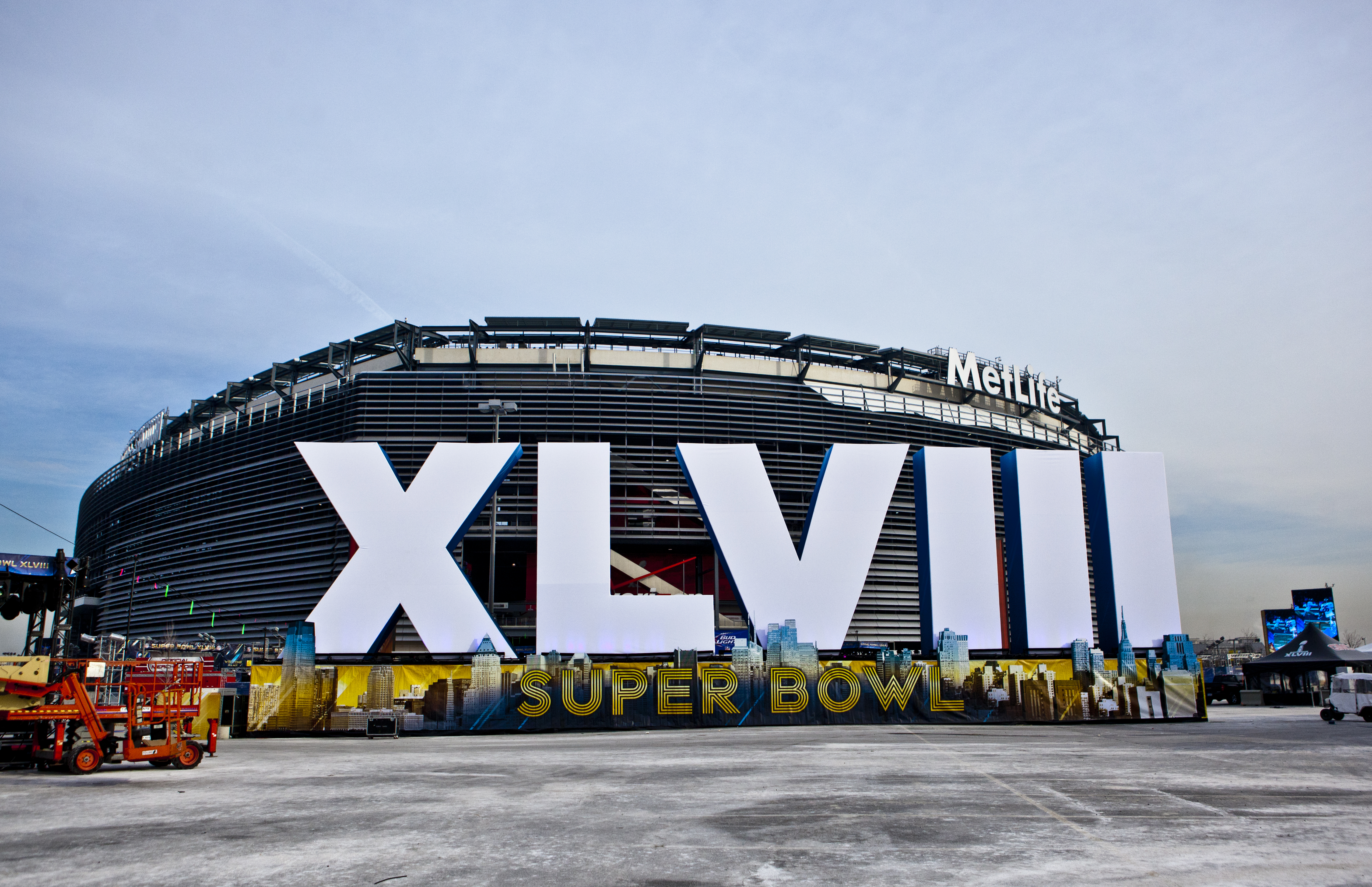 MetLife stadium with decorations for Super Bowl XLVIII